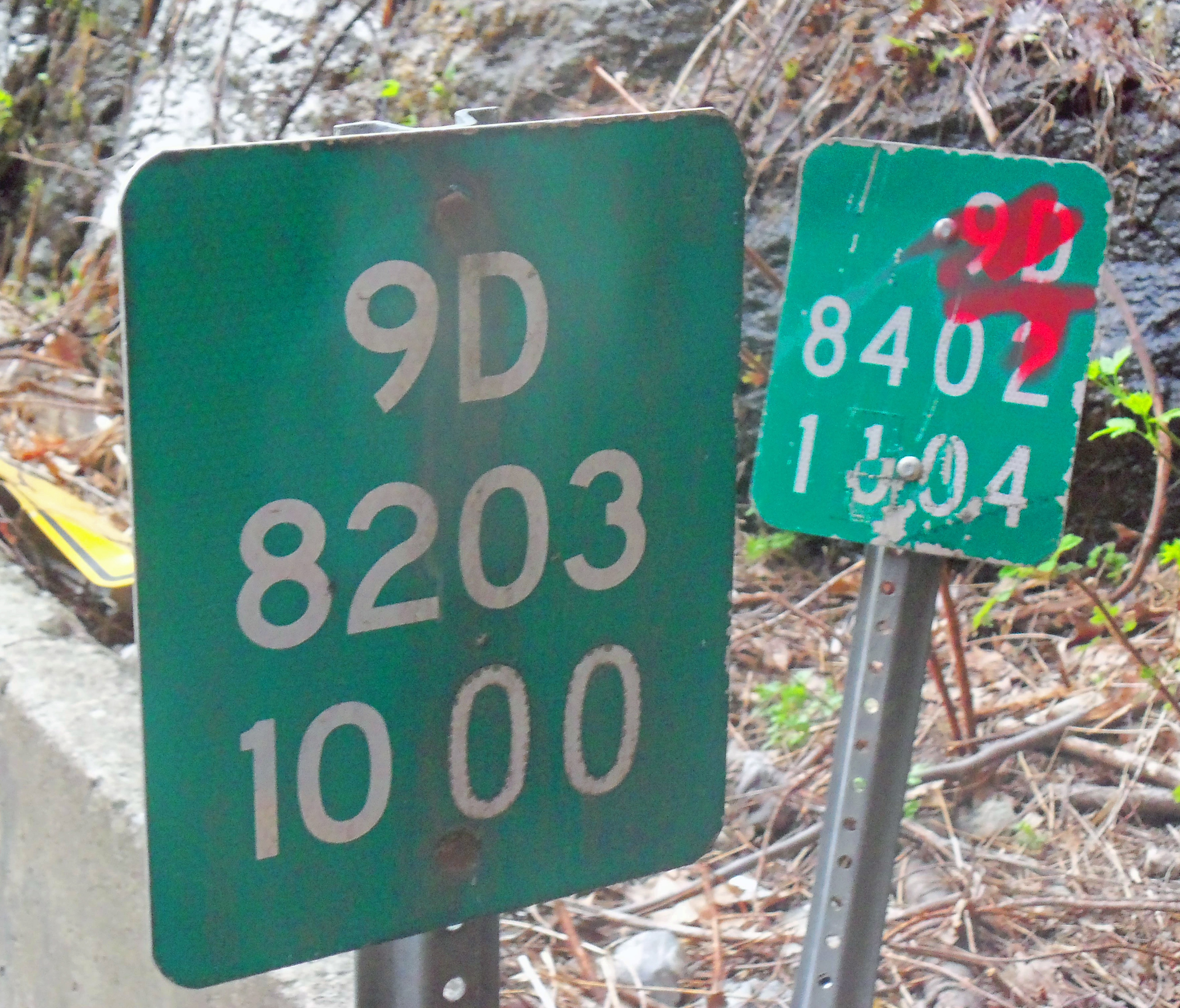 Reference markers on NY 9D at the north portal of the Breakneck Ridge tunnel, coinciding with Dutchess–Putnam county line. The marker on the left indicates the beginning of the Dutchess County portion, via the final three zeroes; the one on the right is the end of the Putnam County section.